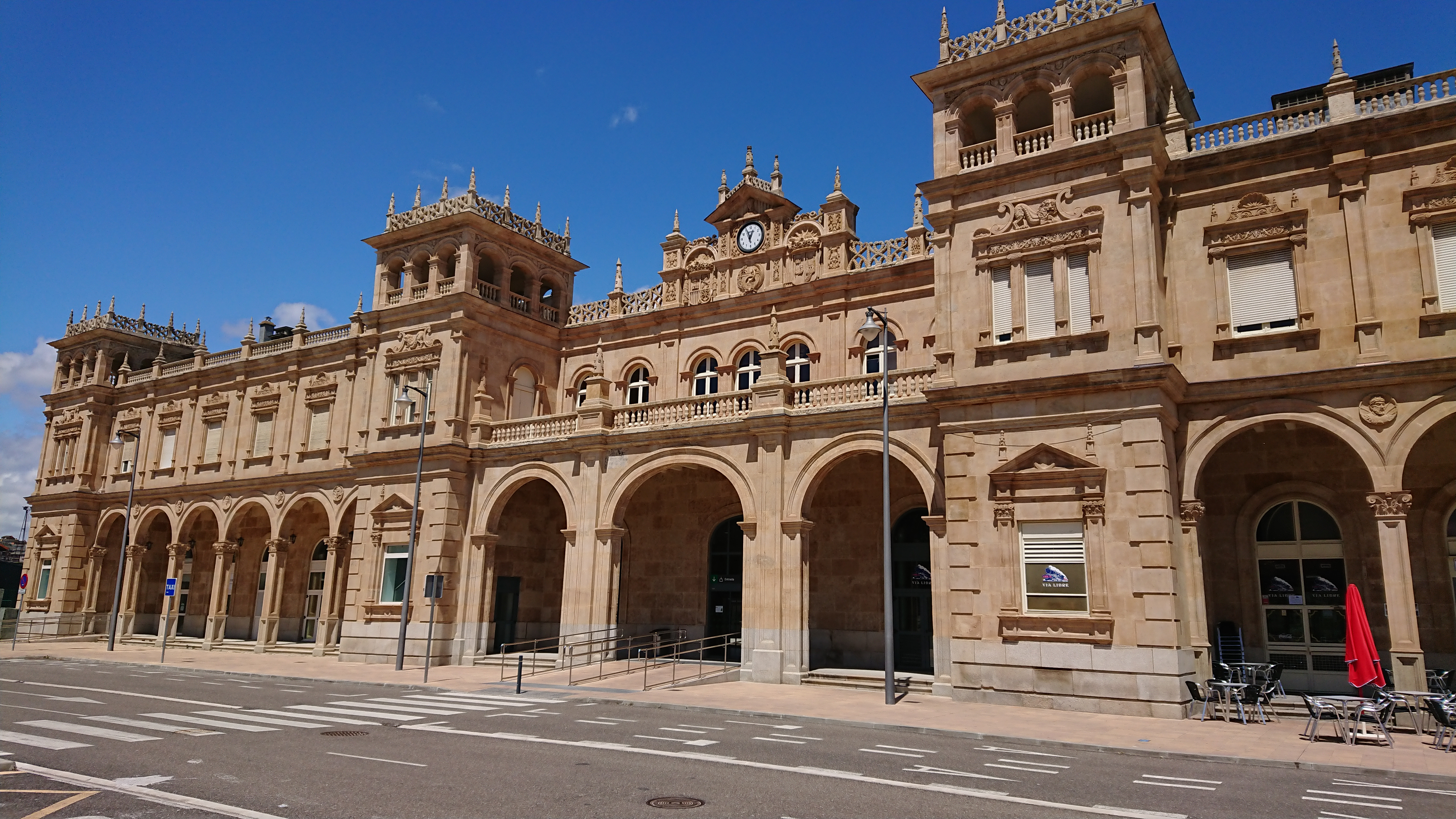 Train station, Zamora (Spain)